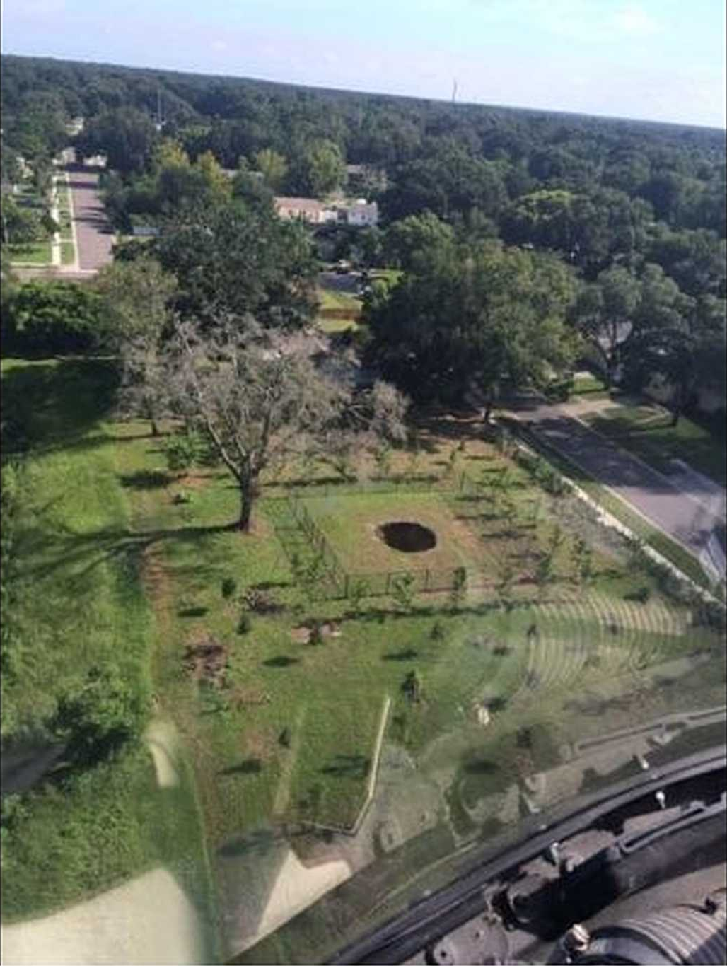 240 Faithway Drive sinkhole, 2015